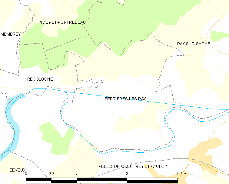 Map of French municipality